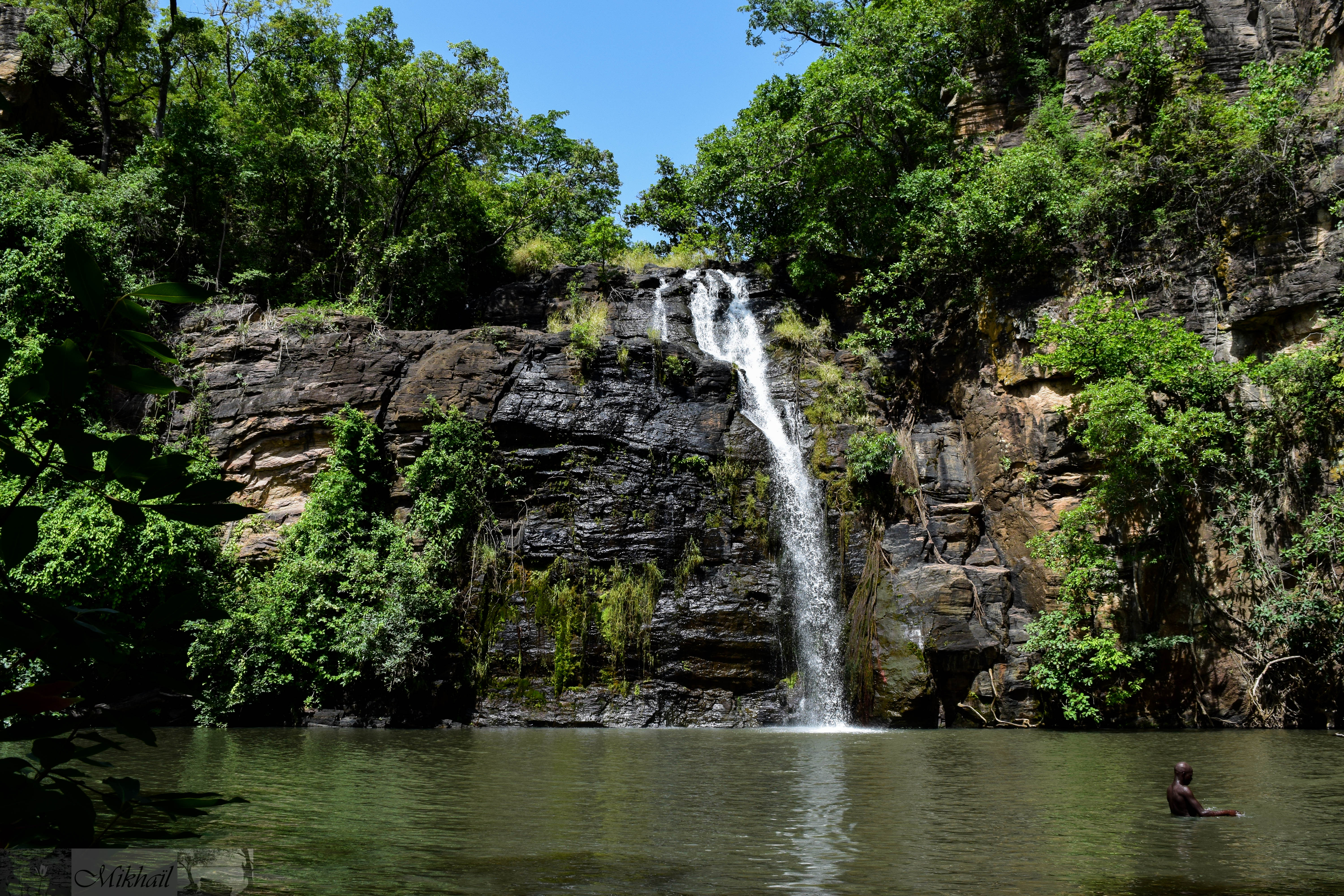 Tanongou fall's near Pendjari National Park